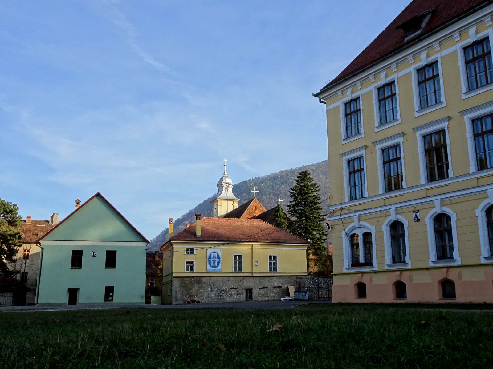 Áprily Lajos college in Brașov